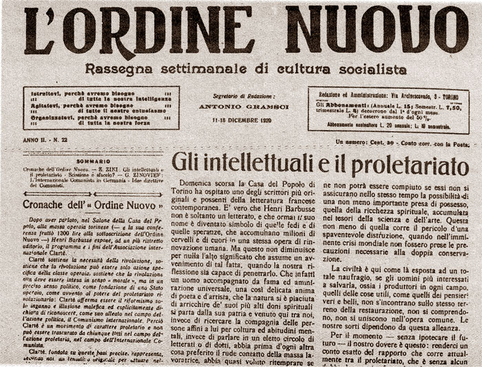 L'Ordine Nuovo